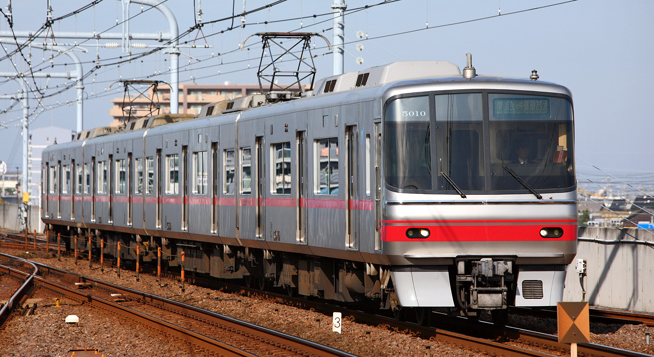 Meitetsu 5000 series ( II ) EMU ( 5010F at Tokoname Sta. )